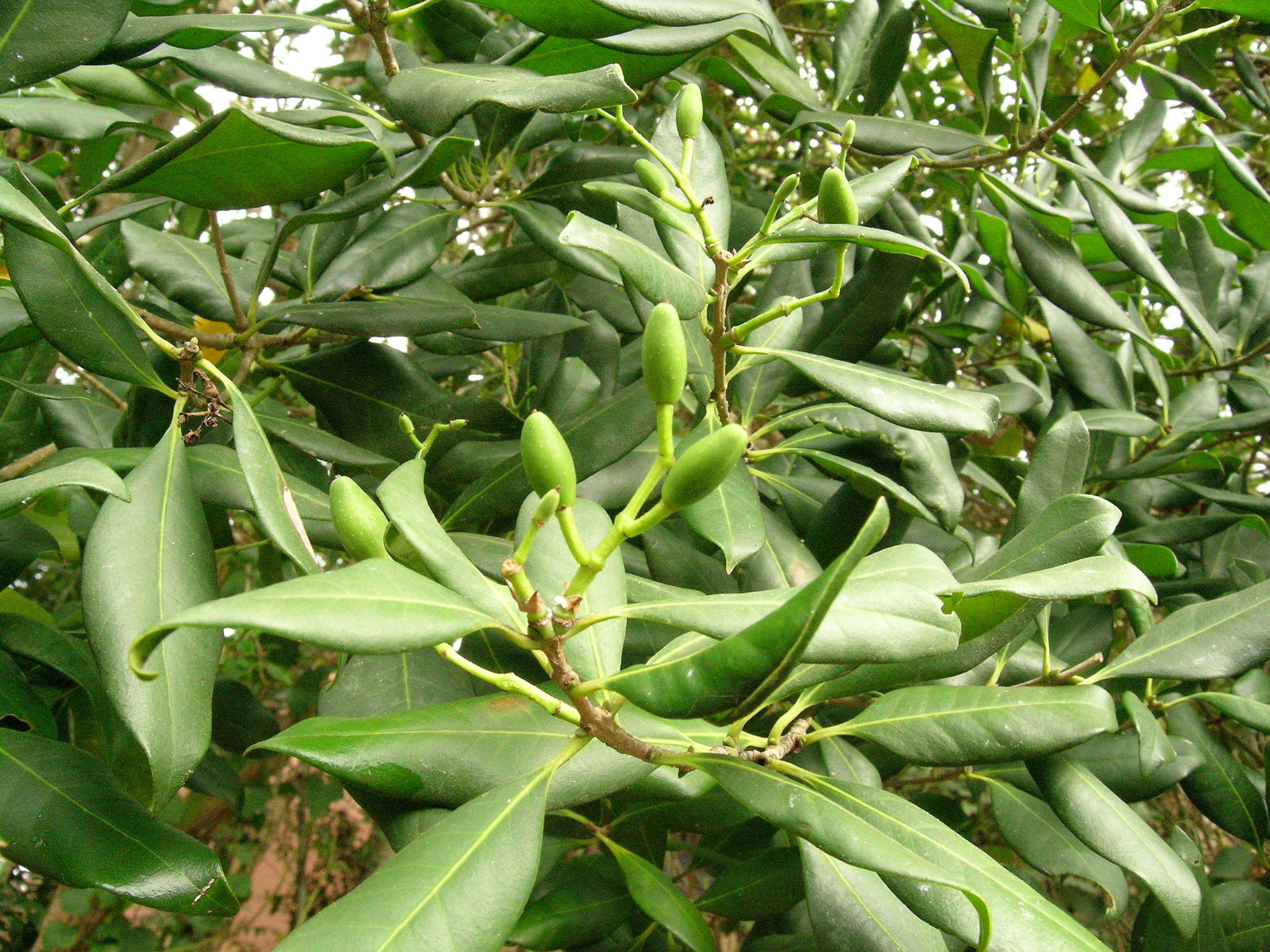 Picconia excelsa fruits